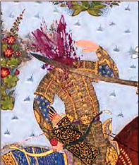 Painting of Lahhak in The Shahnama of Shah Tahmasp